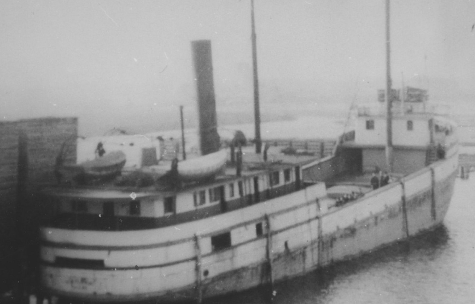 The steamer S.C. Baldwin tied up at a dock